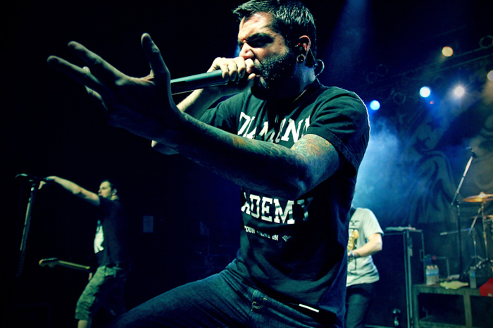 Jeremy at stage in Buenos Aires/Argentina 2011